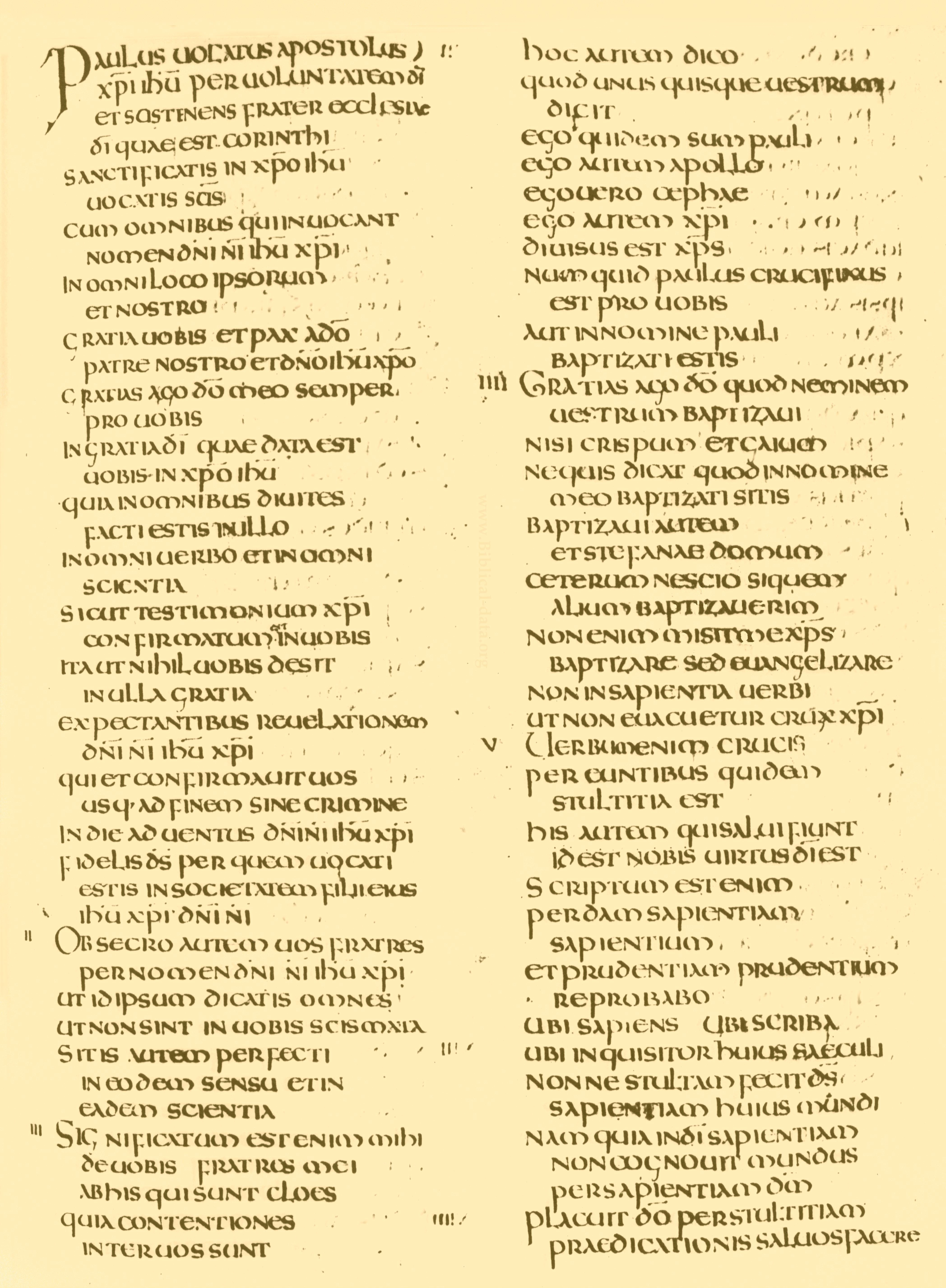 folio 950 recto of the codex with text of 1 Corinthians 1;1-21